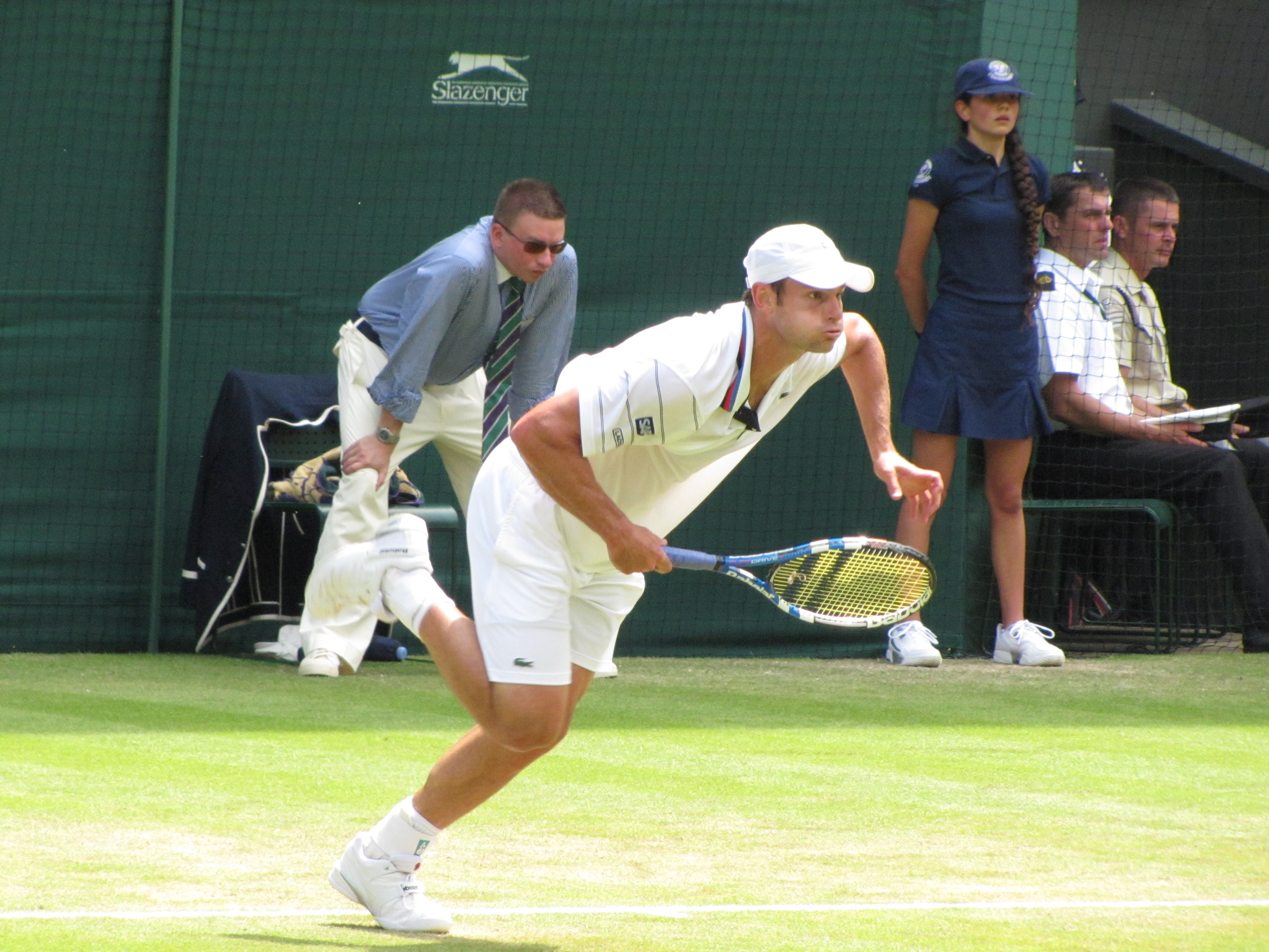 Andy Roddick at the 2010 Wimbledon Championships